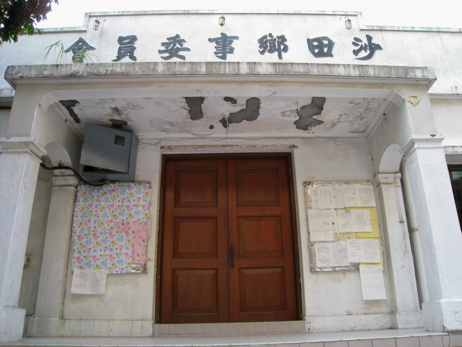 HK Shatin Rural Committee Enterance